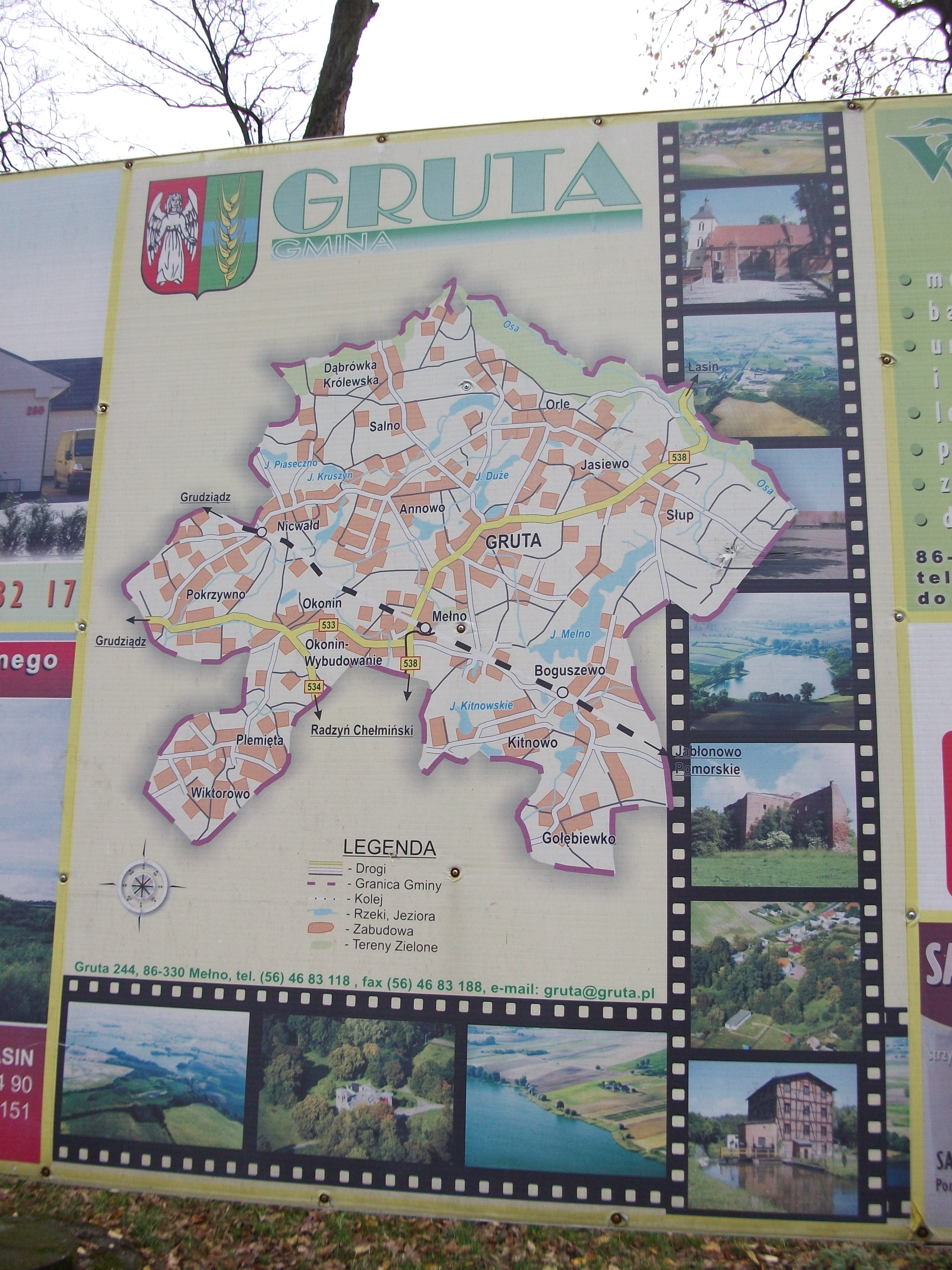 Map of Gruta Community